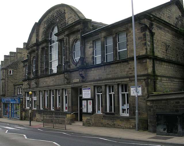 Town Hall - Kirkgate